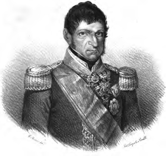 Portrait of Vito Nunziante